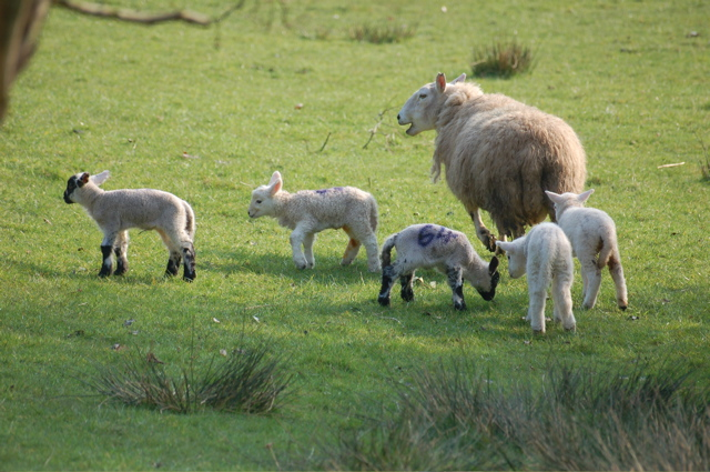 Springtime scene The Welsh mountains are full of sheep with their lambs in late March. Three of these lambs do not belong to the ewe!